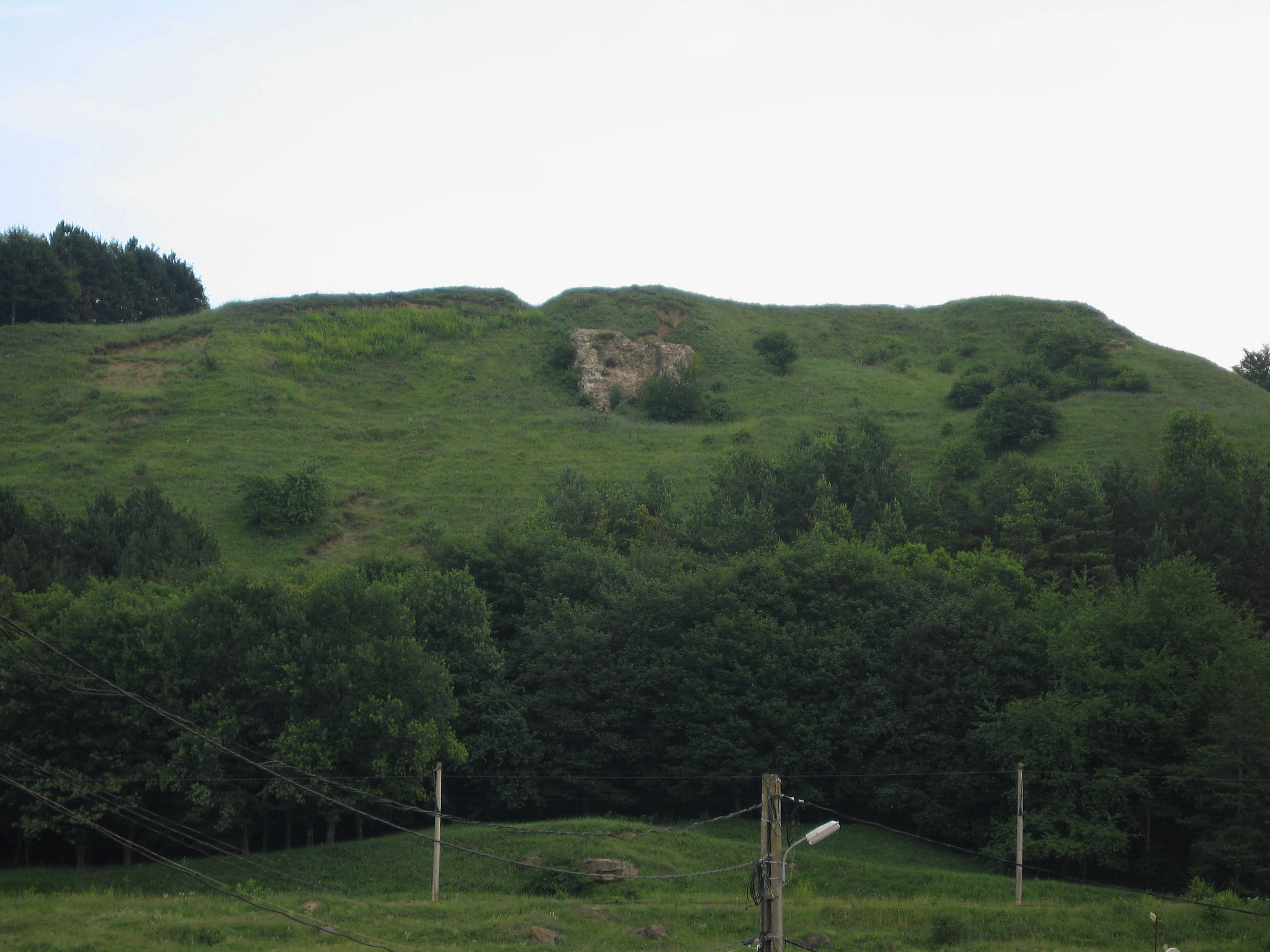 Șcheia Fortress (The Western Fortress of Suceava) – Șeptilici Hill, where the fortress is located.